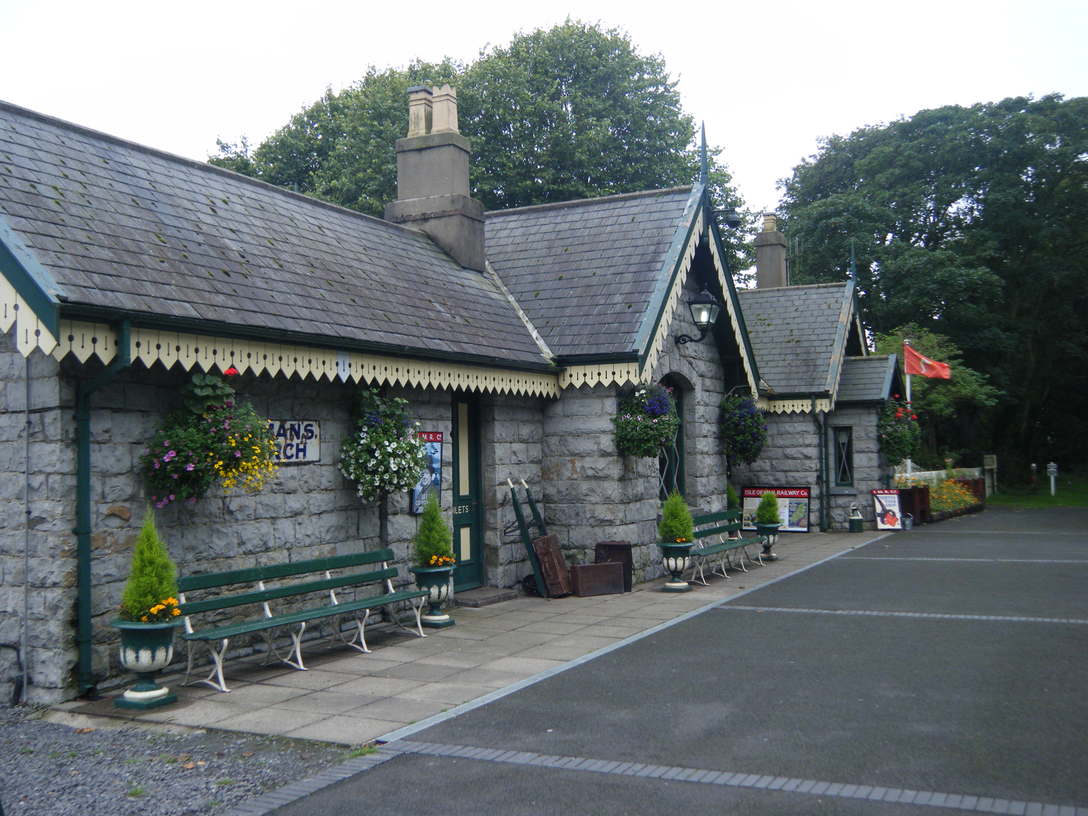 Castletown Station on the Isle of Man Railway dressed for the annual Island At War event